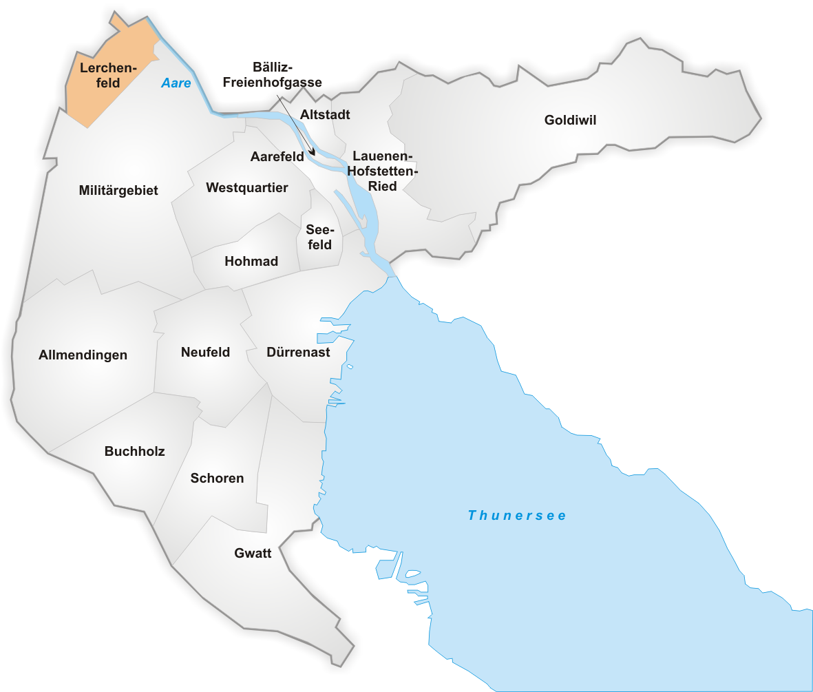 Thuner Quarter Lerchenfeld